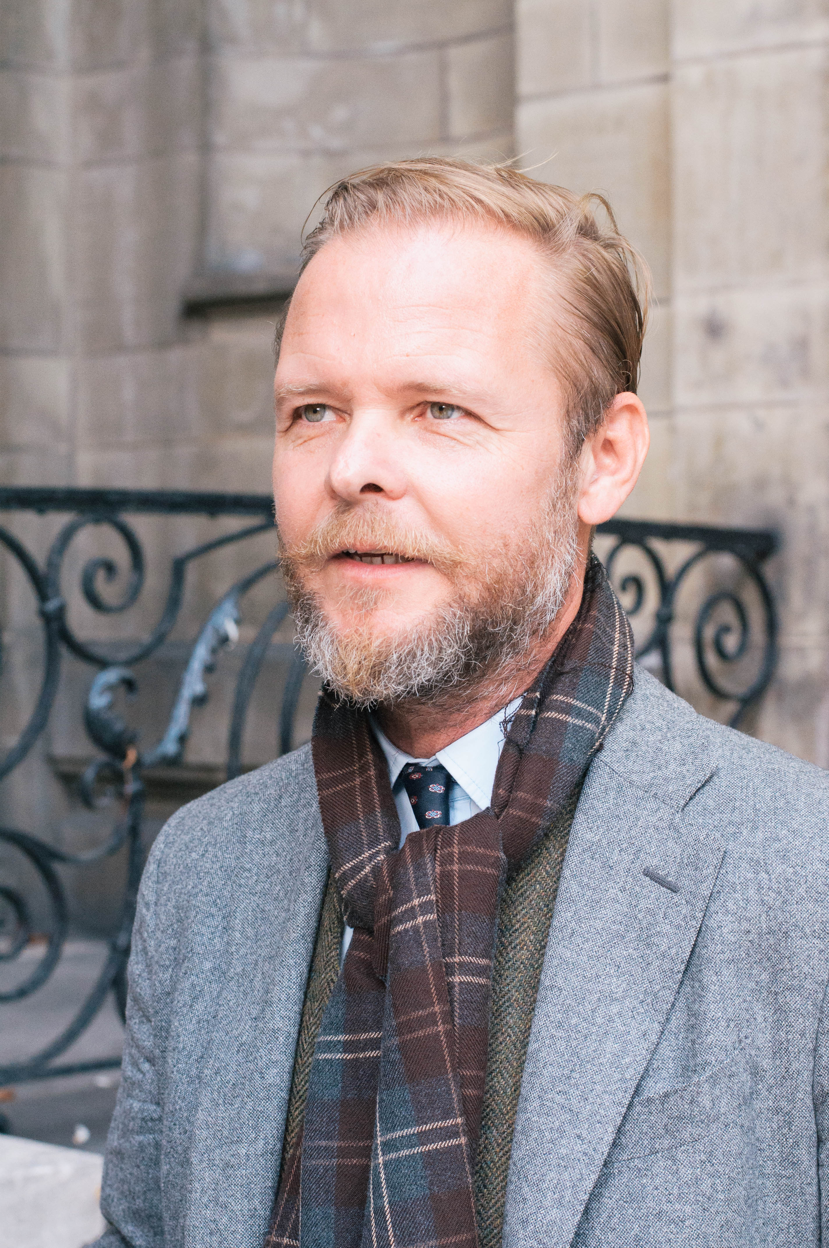 European Voices: A Reading & Conversation with Swiss Author Christian Kracht. At the Pardee School of Global Studies. Monday, September 21, 2015.